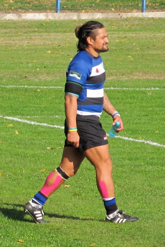 New Zealand born Romanian Rugby Union player Johnny Sola during a SuperLiga match between his team, CSM București, and rivals CSM Baia Mare in October 2015.